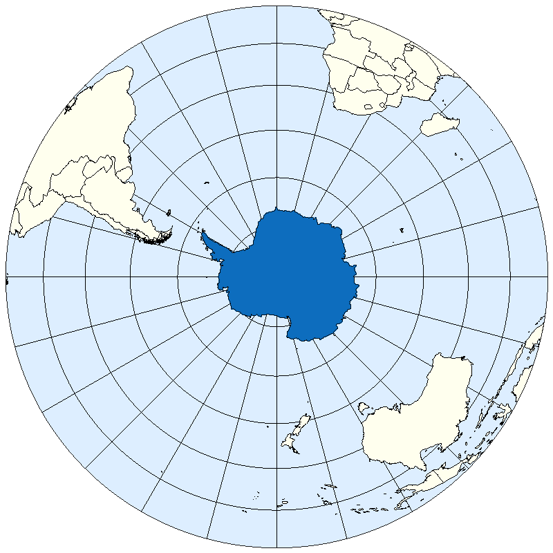 Southern Hemisphere of Earth (Lambert azimuthal projection) with Antarctica highlighted